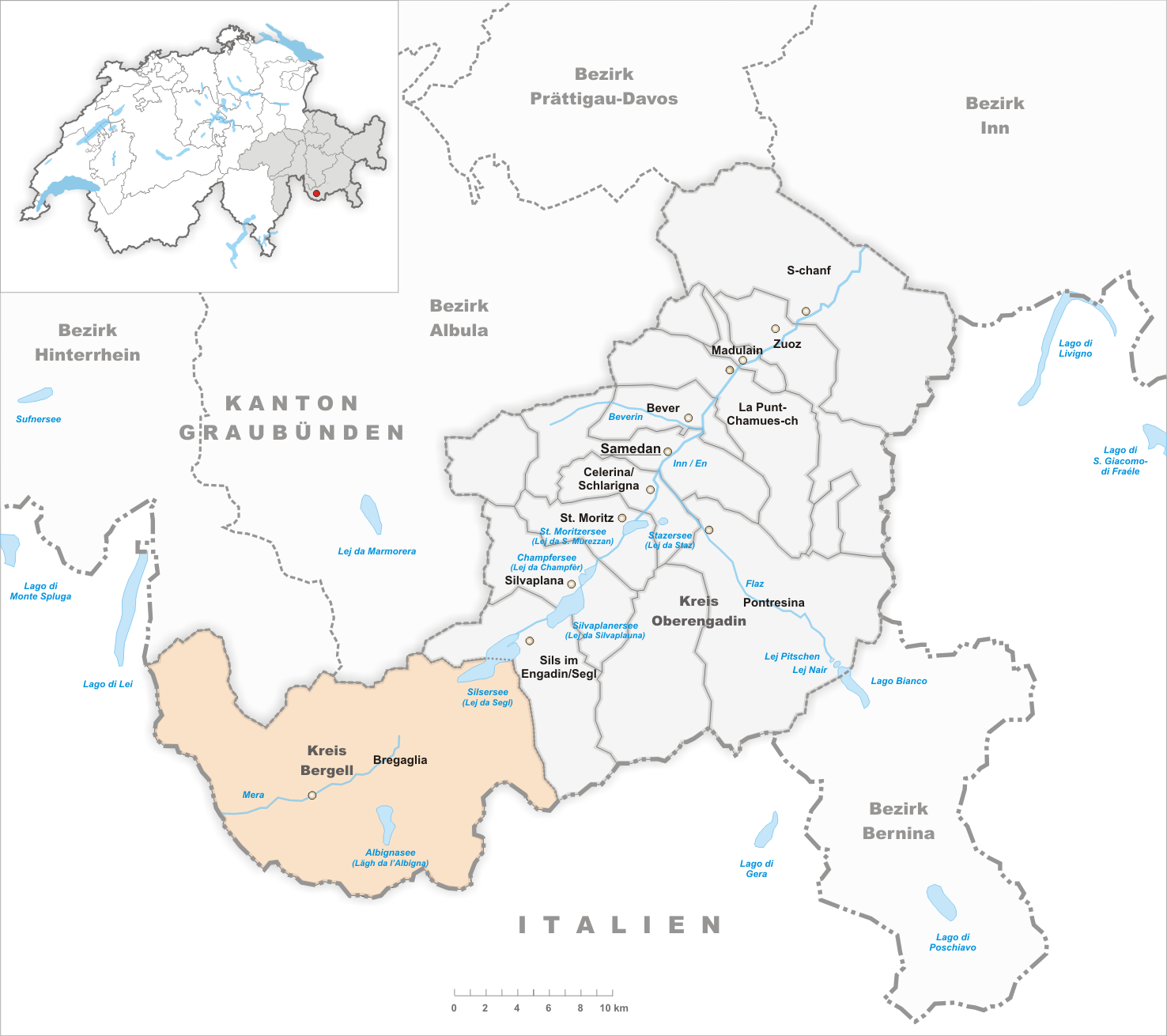 Municipality Bregaglia